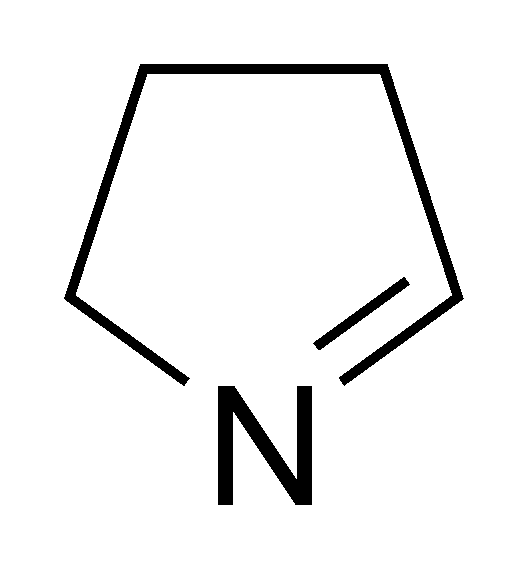 Chemical structure of 1-pyrroline